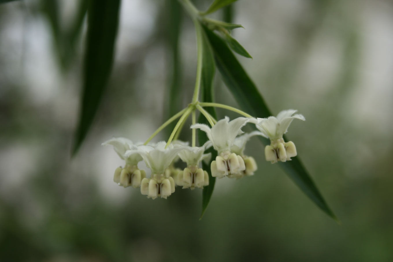 Gomphocarpus fruticosus: Flowers